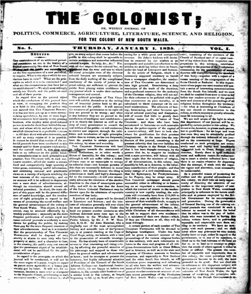 Coverpage of a historic newspaper from New South Wales, Australia.